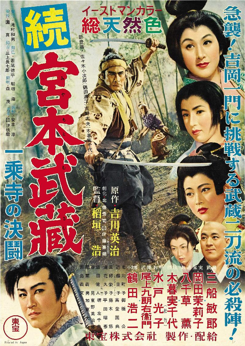 Japanese movie poster for 1955 Japanese film Samurai II: Duel at Ichijoji Temple (続宮本武蔵 一乗寺決闘 Zoku Miyamoto Musashi: Ichijôji no kettô).